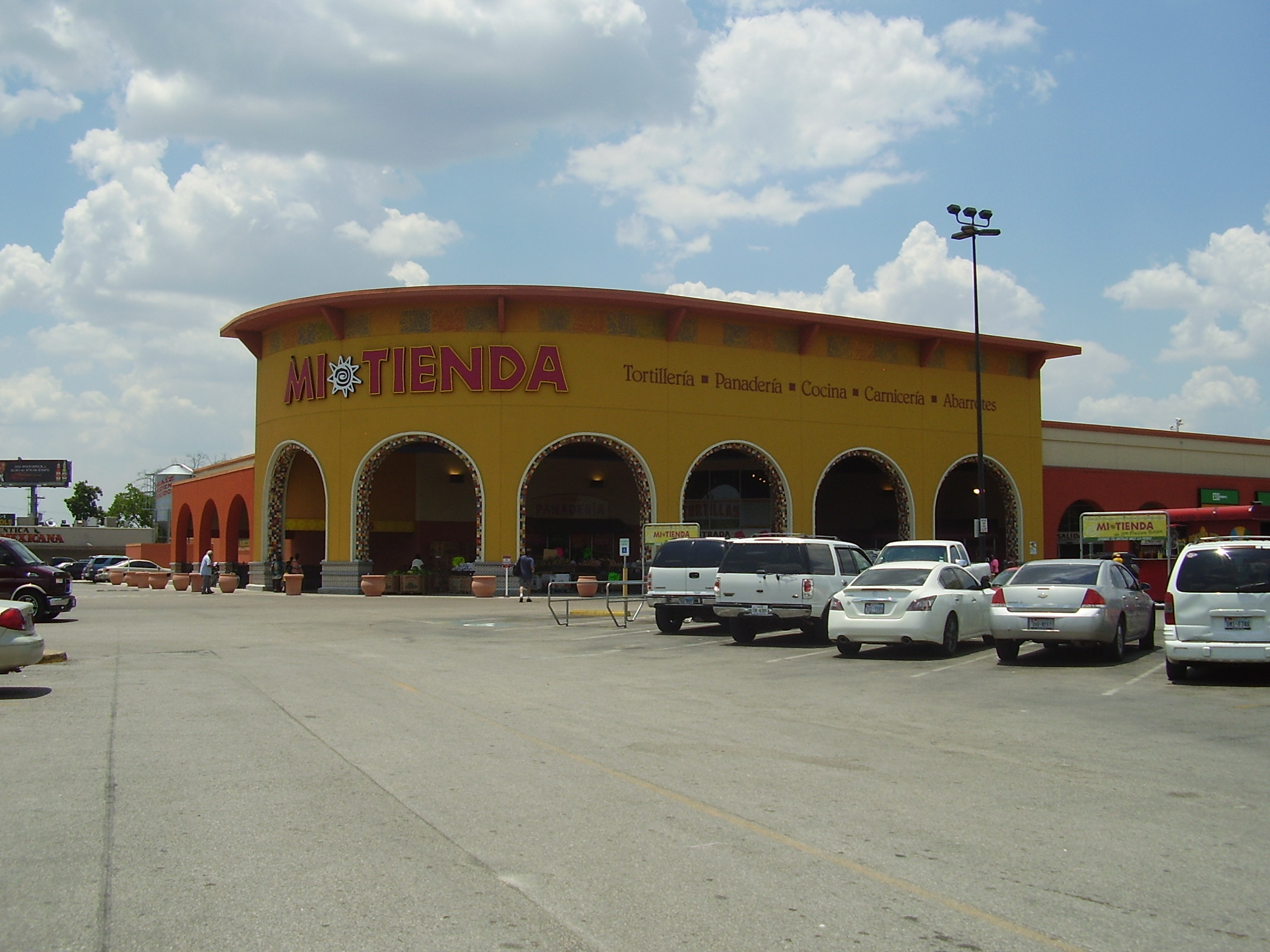 H-E-B Mi Tienda ("My Store") supermarket, Eastex Shopping Center